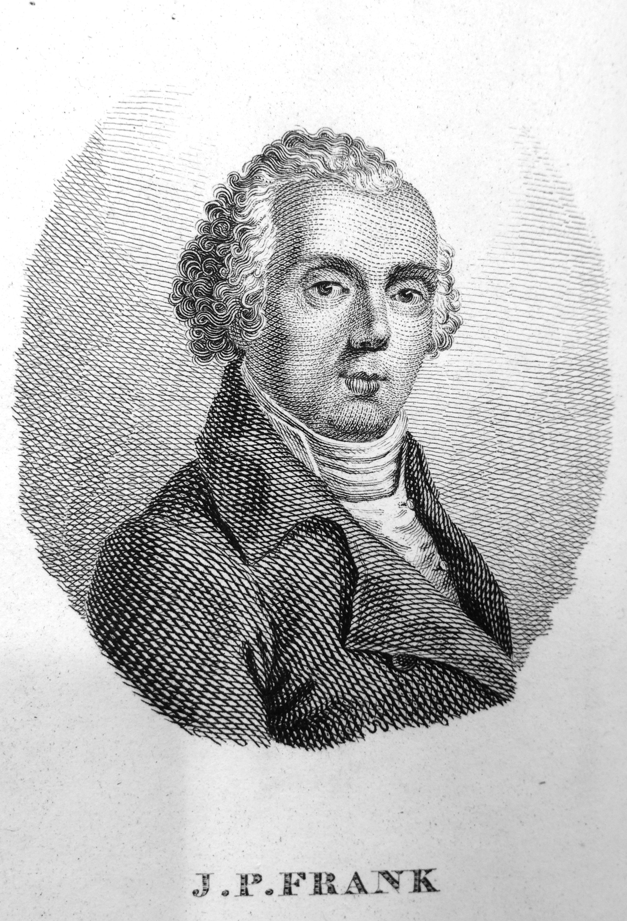 Gravure uit zijn boek "De curandis hominum morbis" (1832)